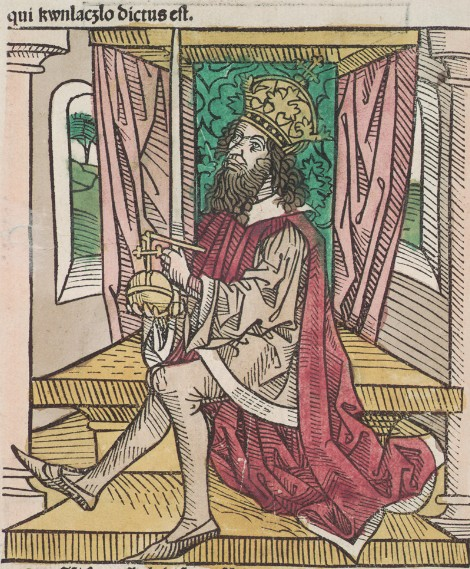 Ladislaus IV of Hungary